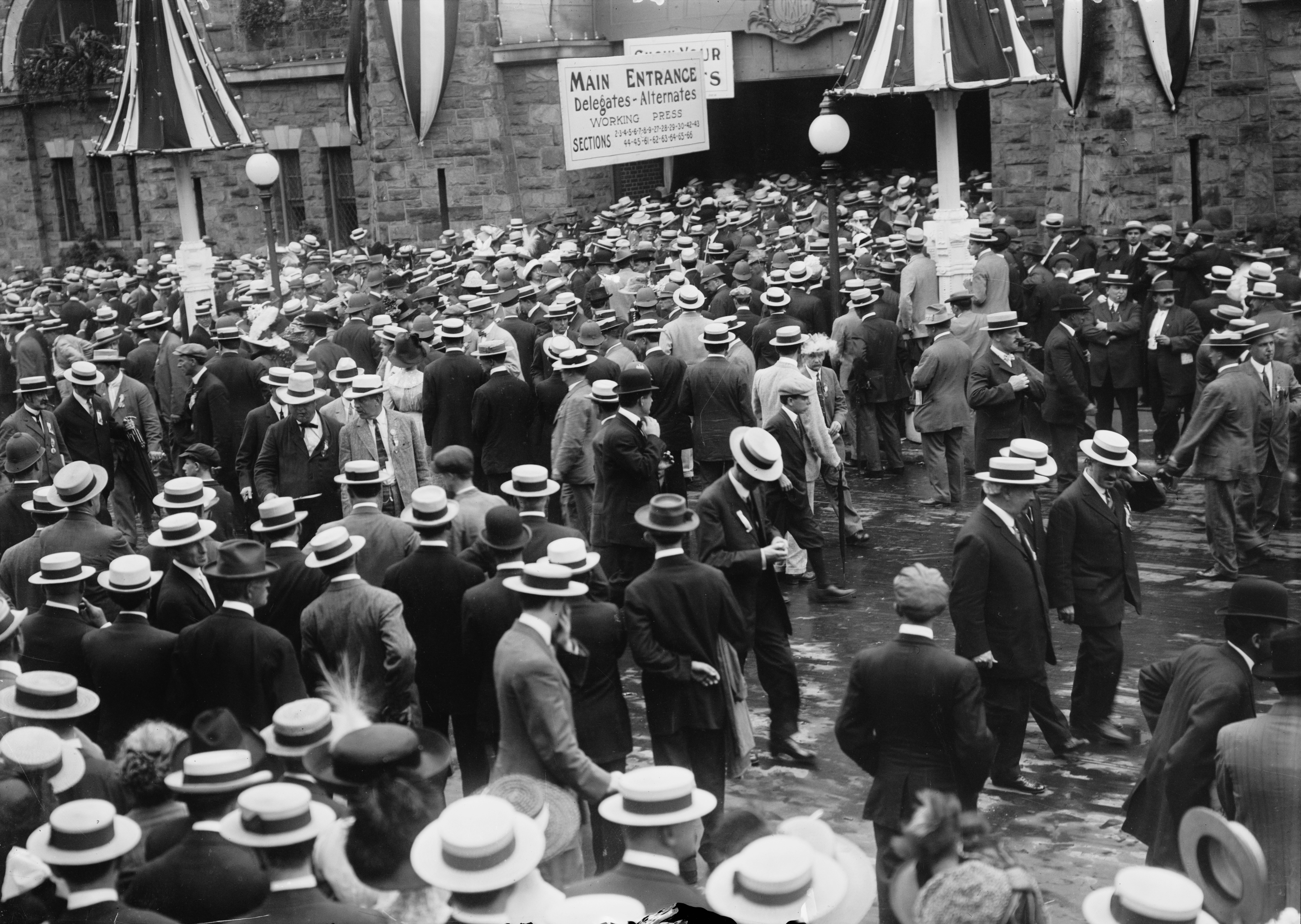 Photo taken at the 1912 Democratic National Convention held at the Fifth Regiment Armory, Baltimore, Maryland, June 25-July 2.